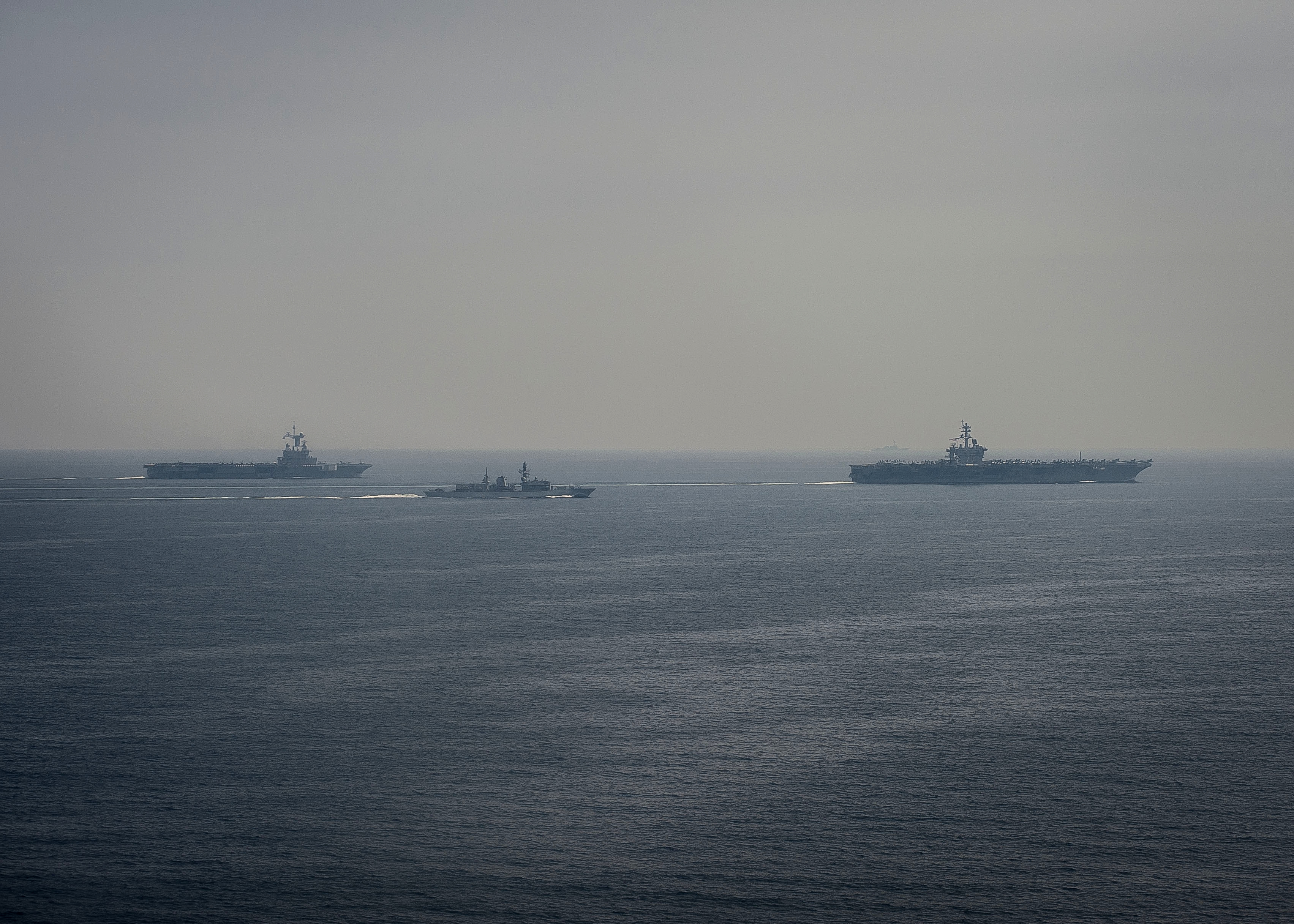 The French Marine Nationale aircraft carrier Charles de Gaulle (R91), left, the Royal Navy frigate HMS Kent (F78), and the U.S. Navy aircraft carrier USS Carl Vinson (CVN-70) transit the Arabian Gulf in March 2015.